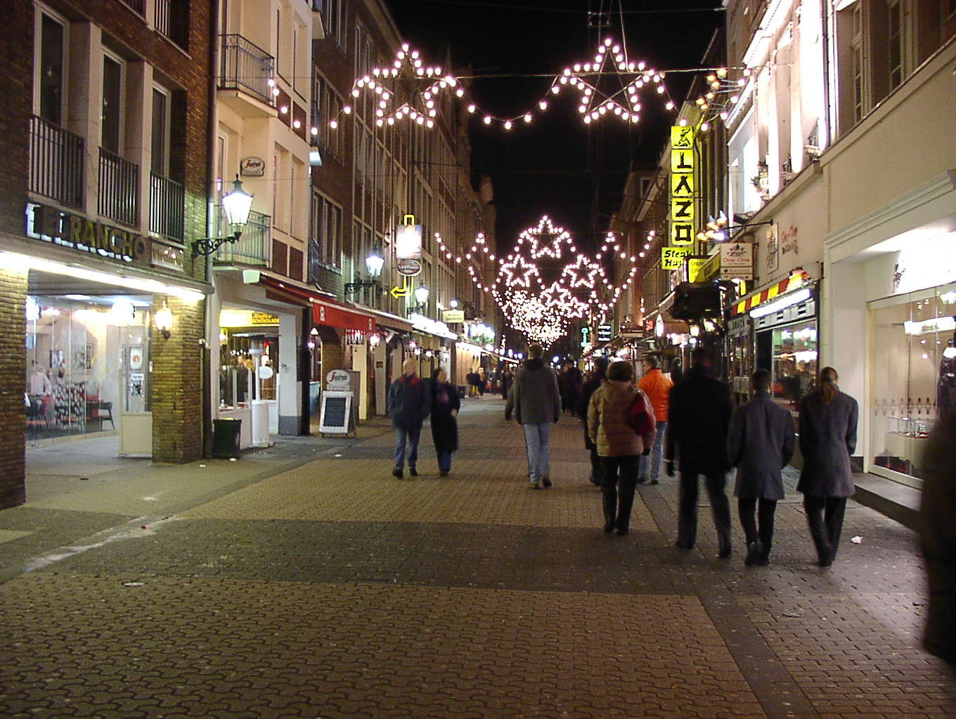 Duesseldorf christmas fair